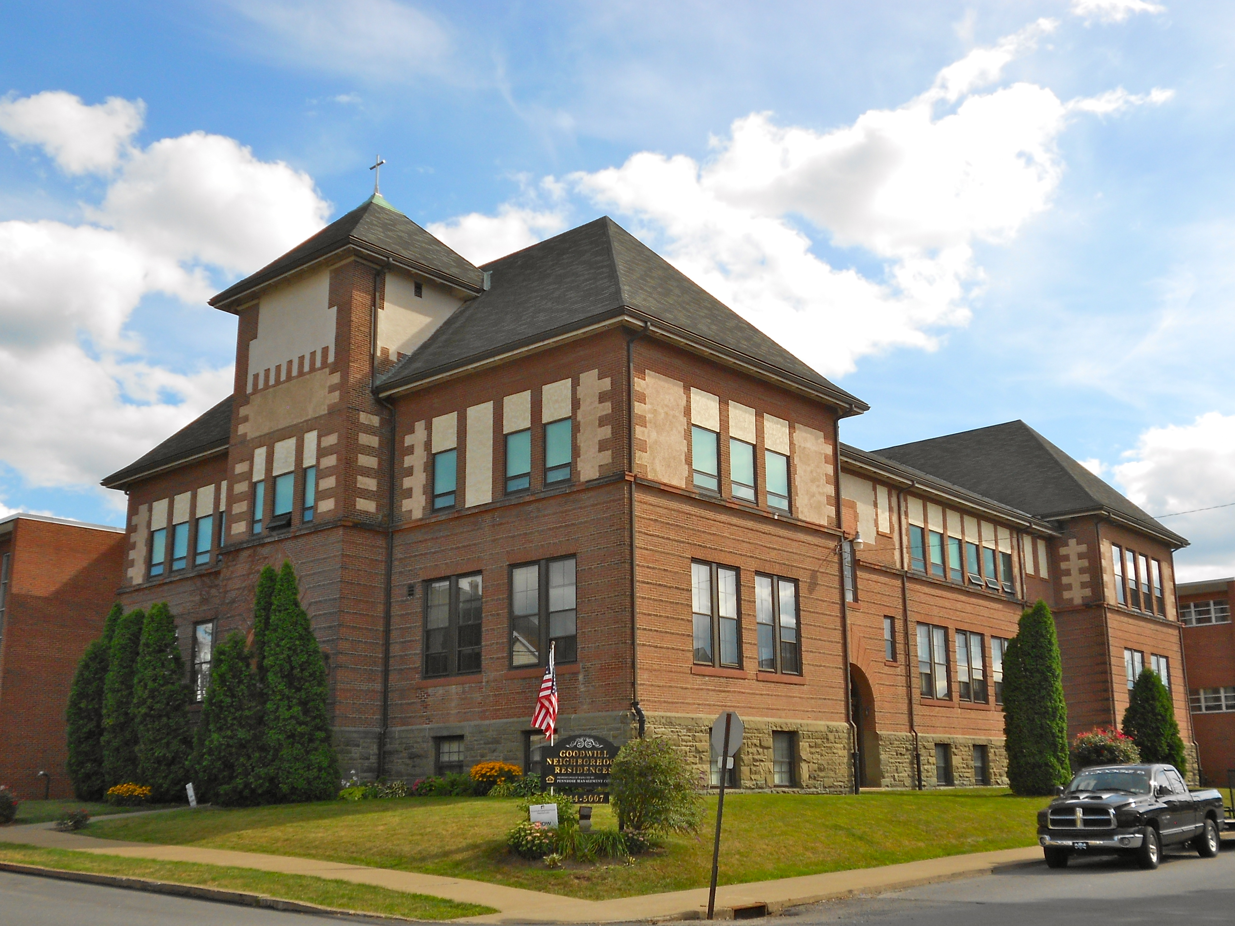 Roger Williams Public School No. 10, listed on the NRHP on June 13, 1997, at 901 Prospect Avenue, Scranton, Lackawanna County, Pennsylvania. Now part of Goodwill Industries.